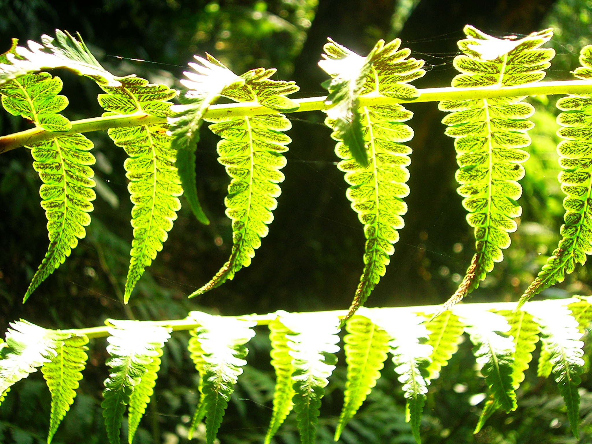 Fern showing sori